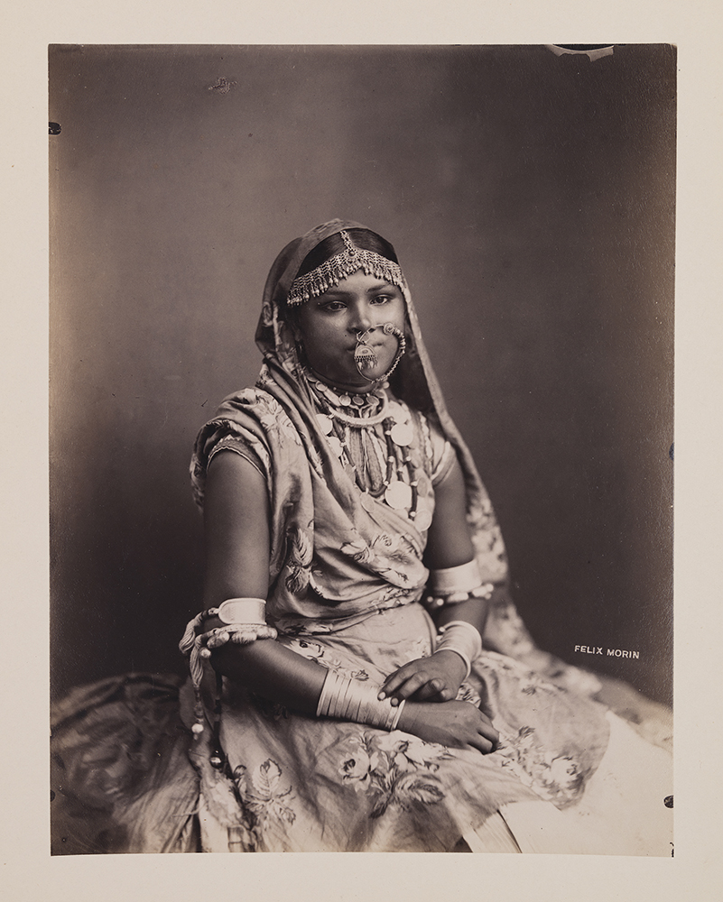 Title: [Indian Woman, Trinidad] Creator: Morin, Felix Date: ca. 1890-1896 Part of: Photographs of Jamaica, Trinidad, and Venezuela Place: Trinidad Physical Description: 1 photographic print: gelatin silver, part of 1 volume (48 prints); 22 x 16 cm on 30 x 25 cm mount File: ag1982_0037_48_opt.jpg Rights: Please cite DeGolyer Library, Southern Methodist University when using this file. A high-resolution version of this file may be obtained for a fee. For details see the web page. For other information, . For more information and to view the image in high resolution, View Latin America and the Caribbean: Photographs, Manuscripts, and Imprints